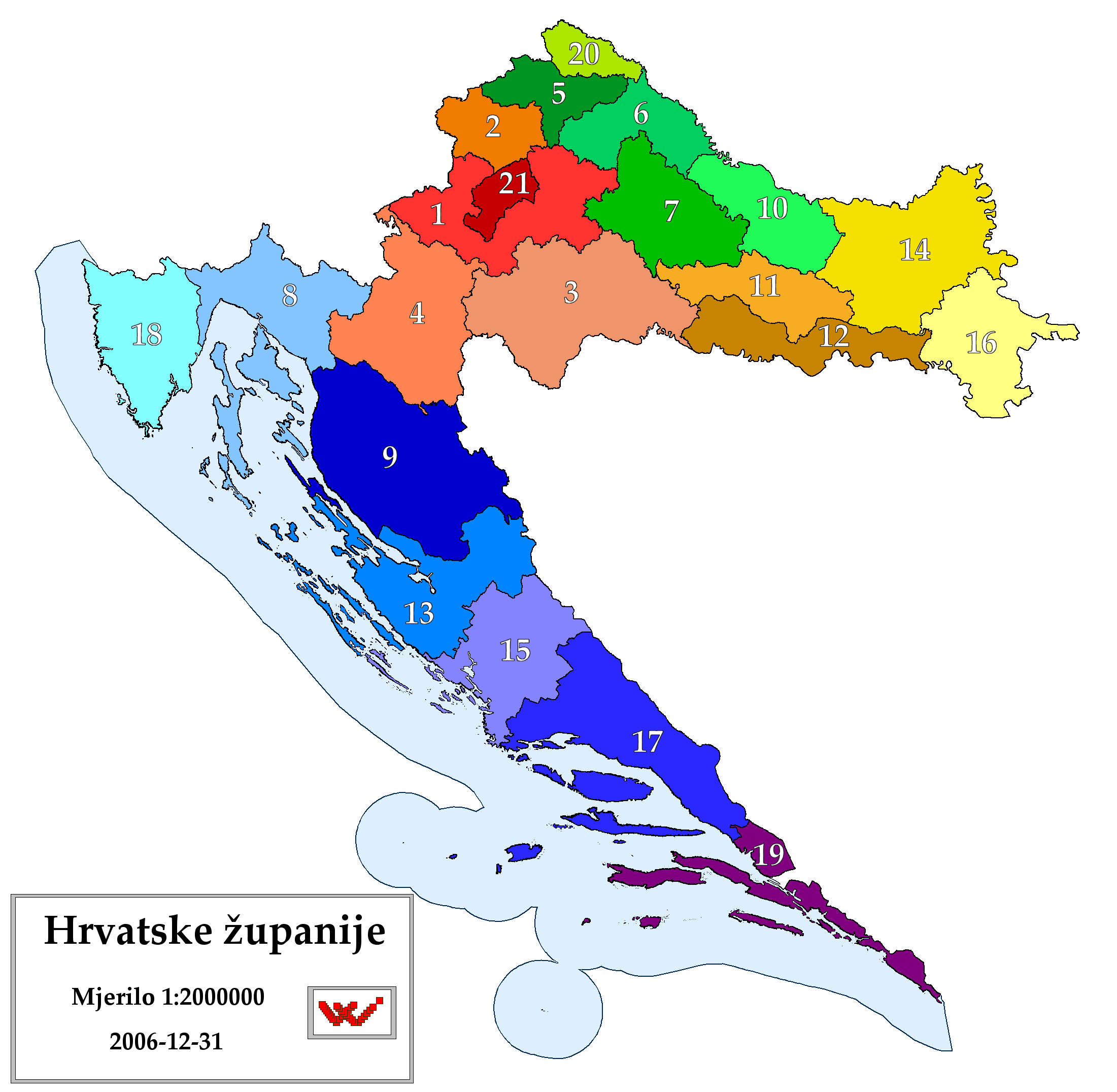 Counties of the Republic of Croatia